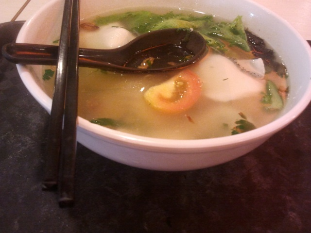 I was having lunch at approximately 4:00 PM (GMT+8) at Food Junction, Junction 8, Bishan, Singapore. Had a delicious bowl of fish soup bee hoon cooked by a Chinese national. Took a picture of my meal and here it is. Enjoy.